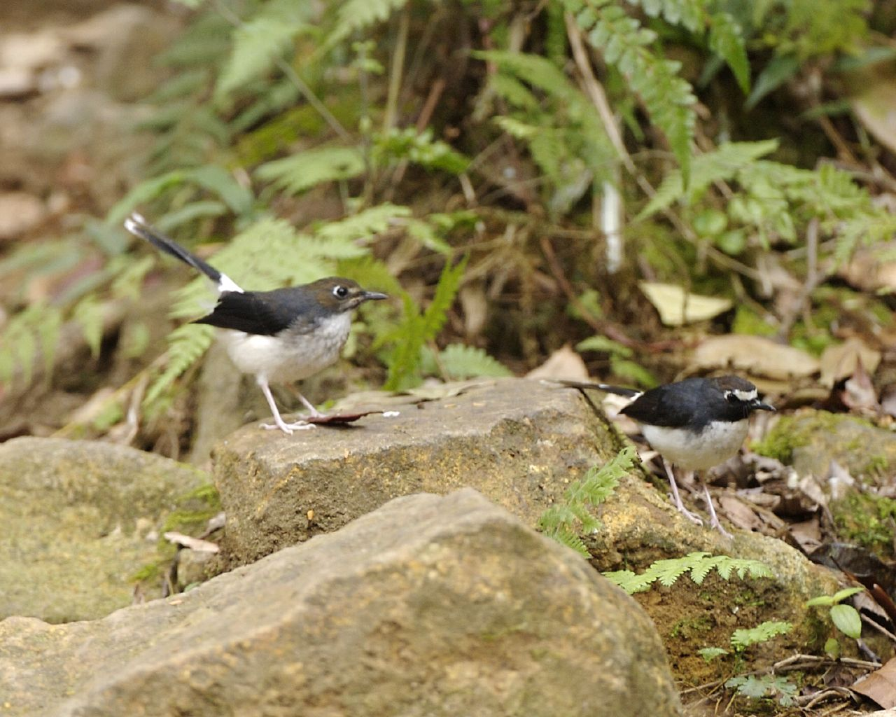 Sunda Forktail - female and juvenile Enicurus velatus Local name, Indonesian: Meninting kecil 10th. August 2007 Location : Gunong Gede, Java, Indonesia Distribution: _Q0S8330